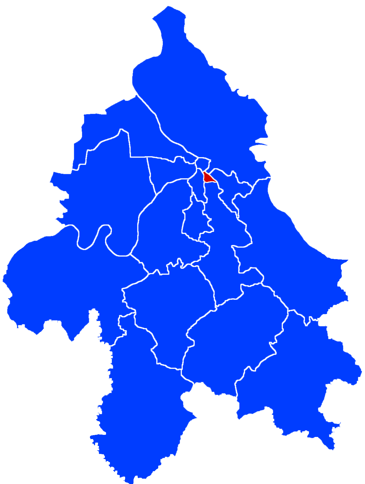 The graphical representation of the municipality of Vračar within the city of Belgrade